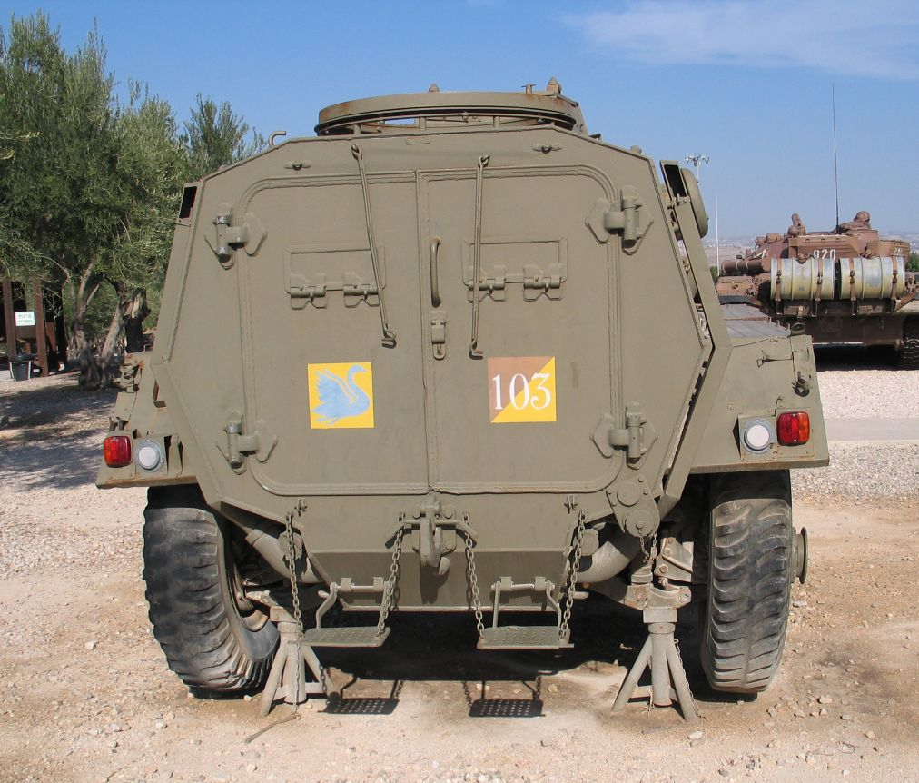 Description: Alvis FV 603 Saracen APC in Yad la-Shiryon Museum, Israel. 2005. Source: Photo by me, User:Bukvoed.